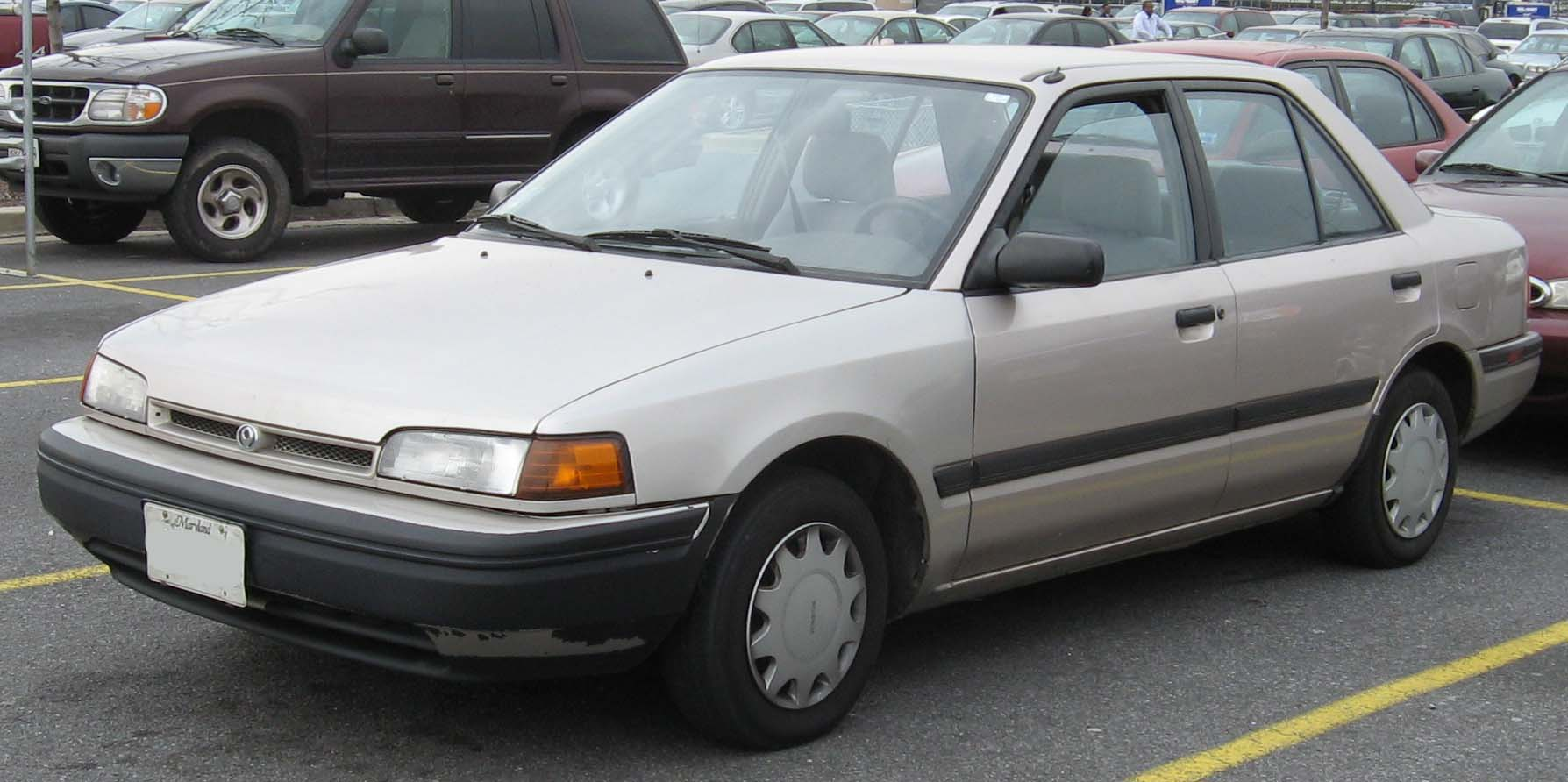 Mazda Protege photographed in USA.